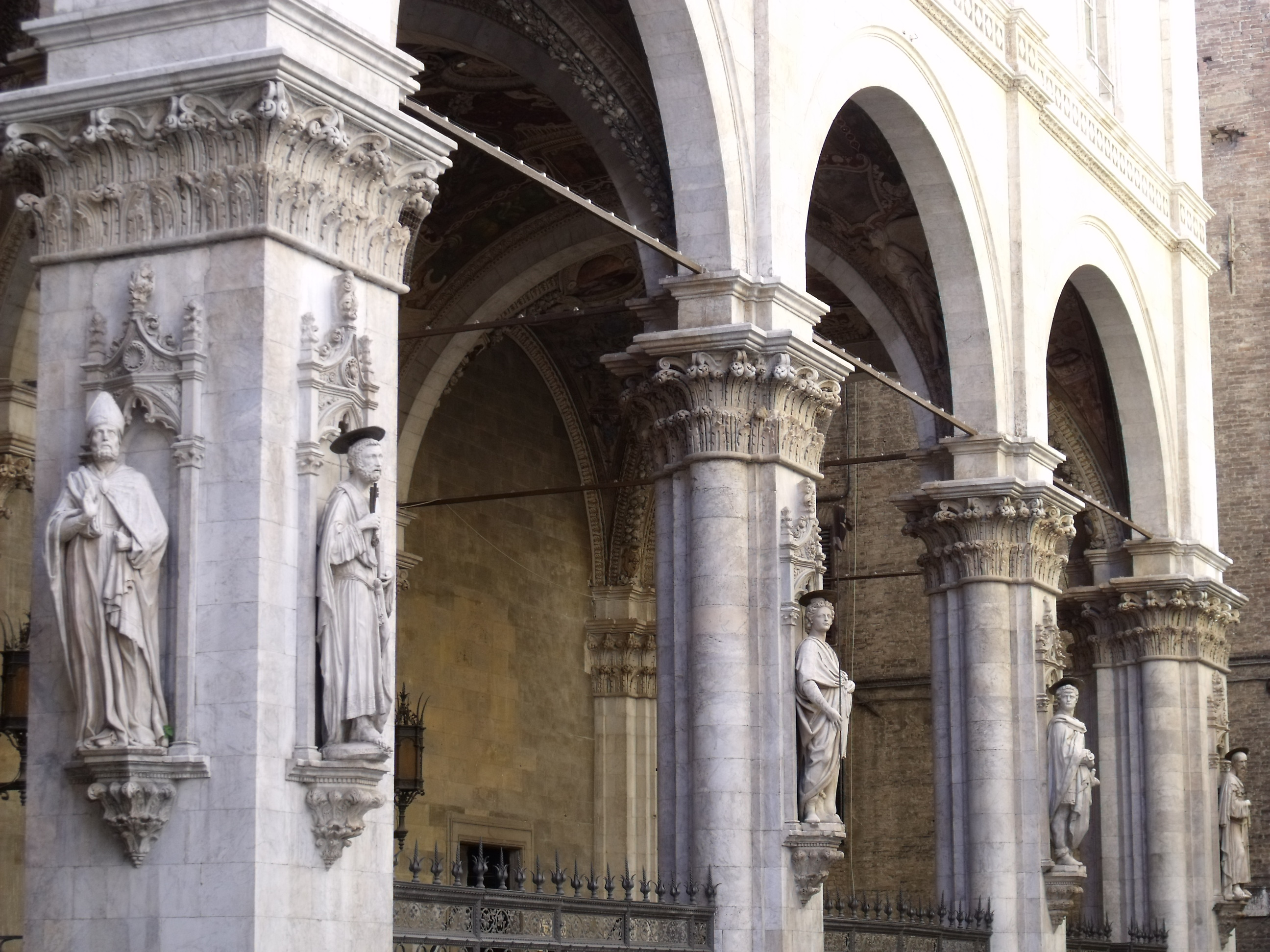 The 5 Statues of the Loggia della Mercanzia in Siena, Tuscany, Italy: from the left: San Savino (Federighi), San Pietro (Vecchietta), Sant’Ansano (Federighi), San Vittore (Federighi), San Paolo (Vecchietta)